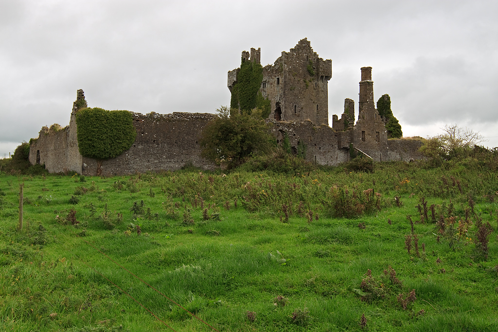 Castles of Munster: Ballygrennan, Limerick Ballygrennan is located on a minor road about 1 km south of Bruff. Despite the tradition that the Earls of Kildare held a castle here, this tower may in fact date from after 1583, a time when Ballygrennan was first granted to William ffox. By 1621 the ffox family had lost possession of Ballygrennan, although they had recovered it again by 1657. By that time the large outer bawn had been built on the north side incorporating a gateway, whose opening can just be seen in the photo. Adjoining the tower are the remains of an early C17 house.